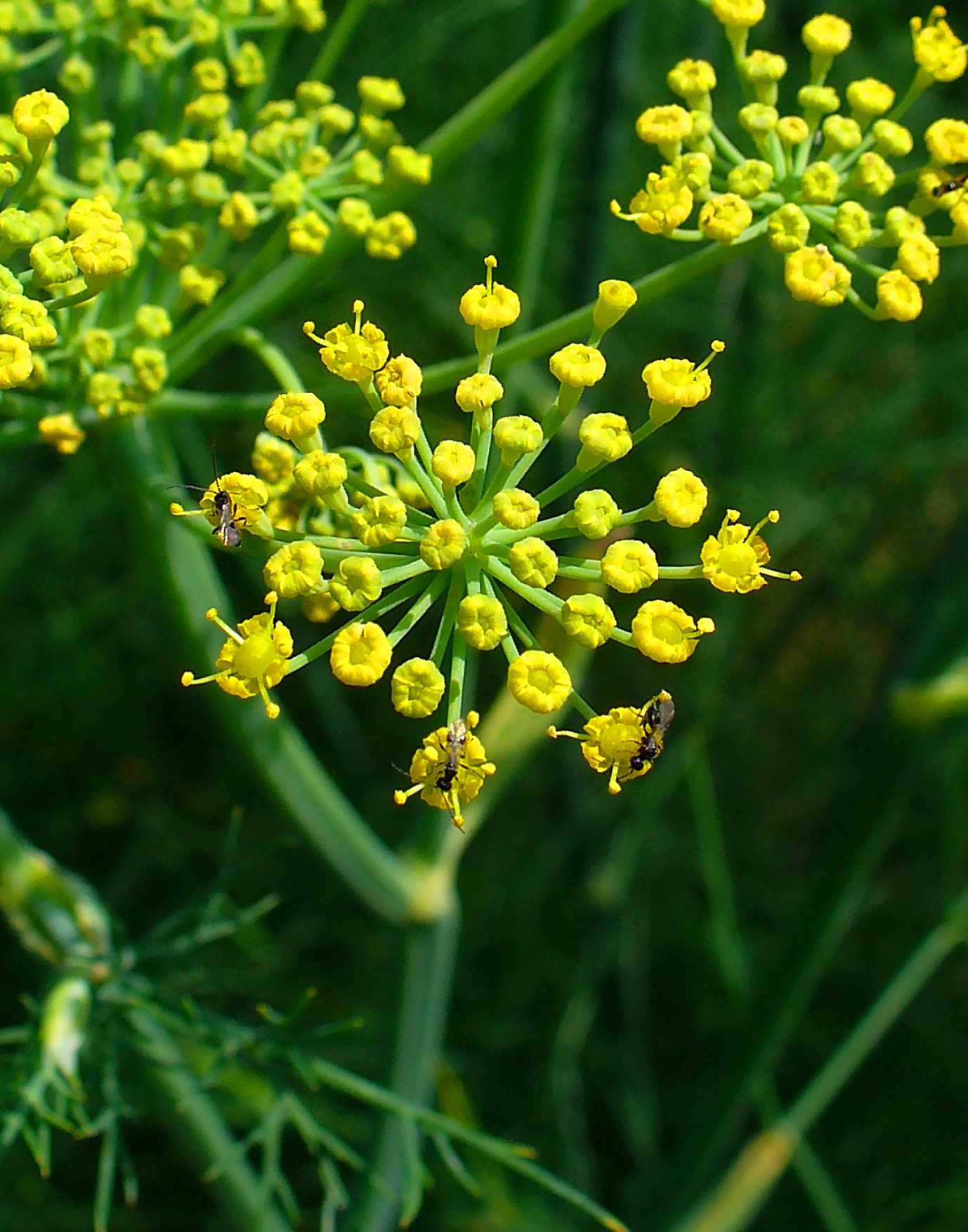 Foeniculum vulgare, Apiaceae, Fennel, inflorescence. The dried ripe fruits are used in homeopathy as remedy: Foeniculum (Foen-an.)